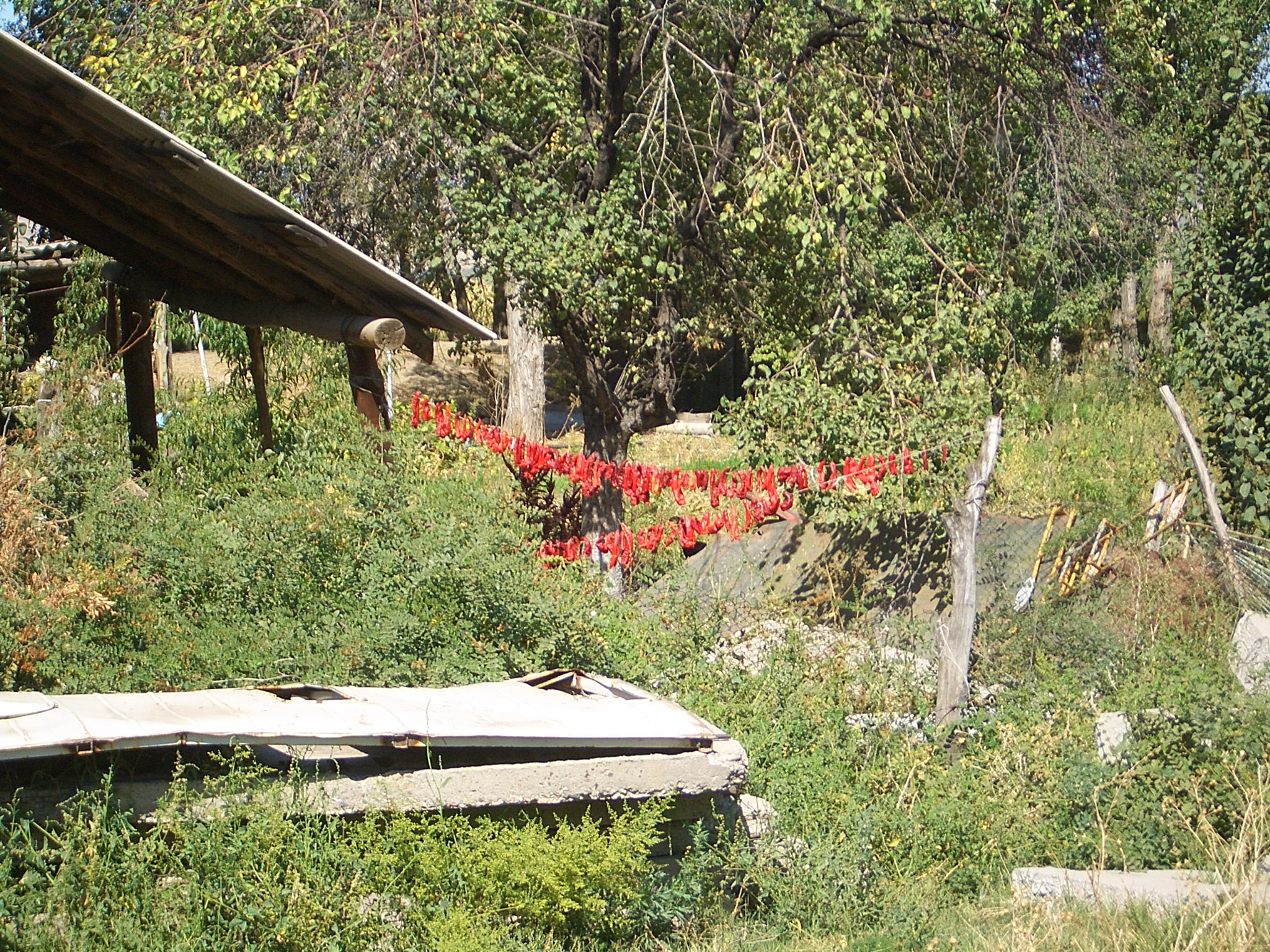 Peppers being dried in the front yard of a house in Milyanfan, a Dungan village on the Kyrgyzstan side of the Chuy river.